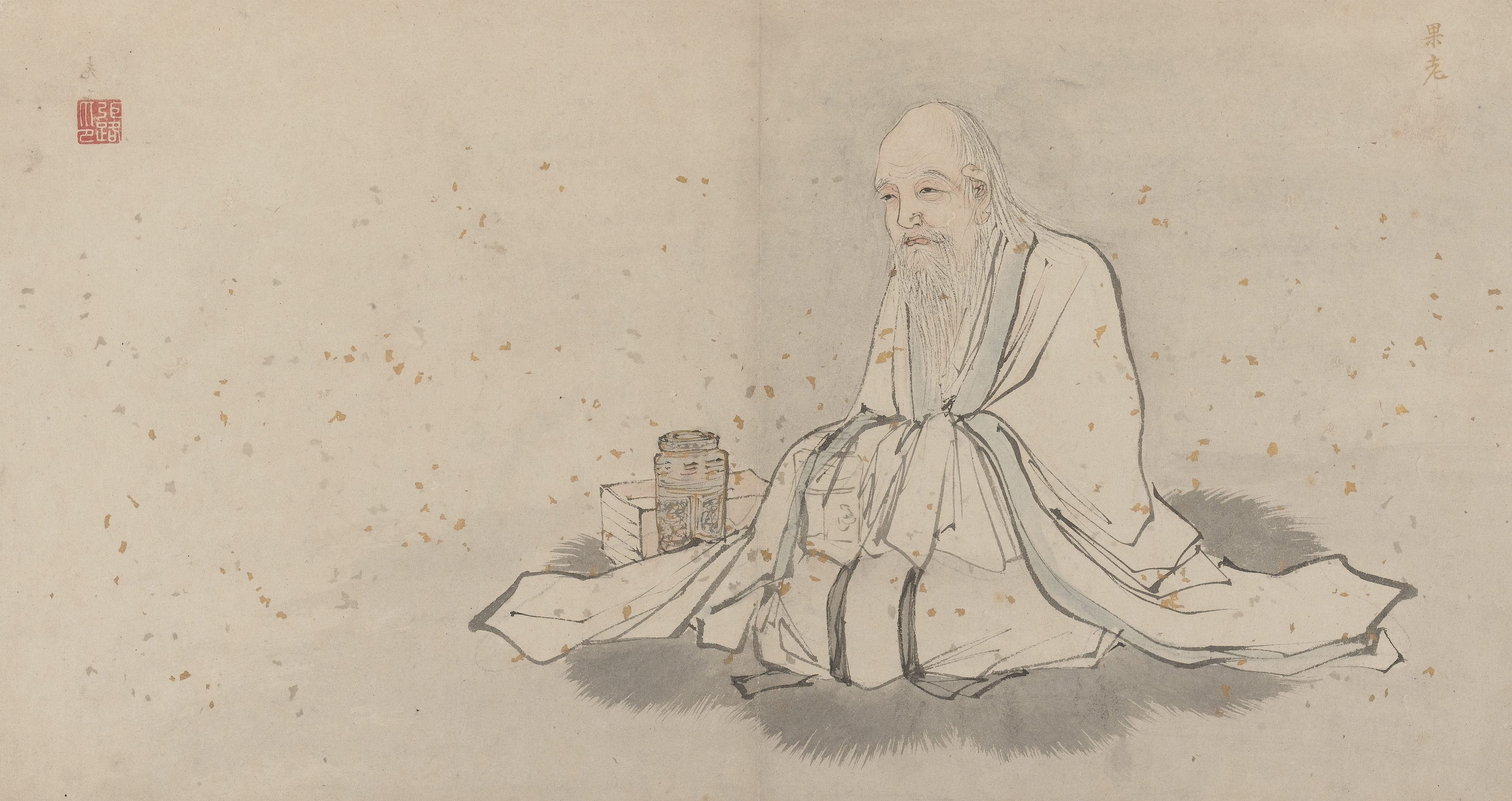 Depiction of the Daoist immortal Zhang Guolao